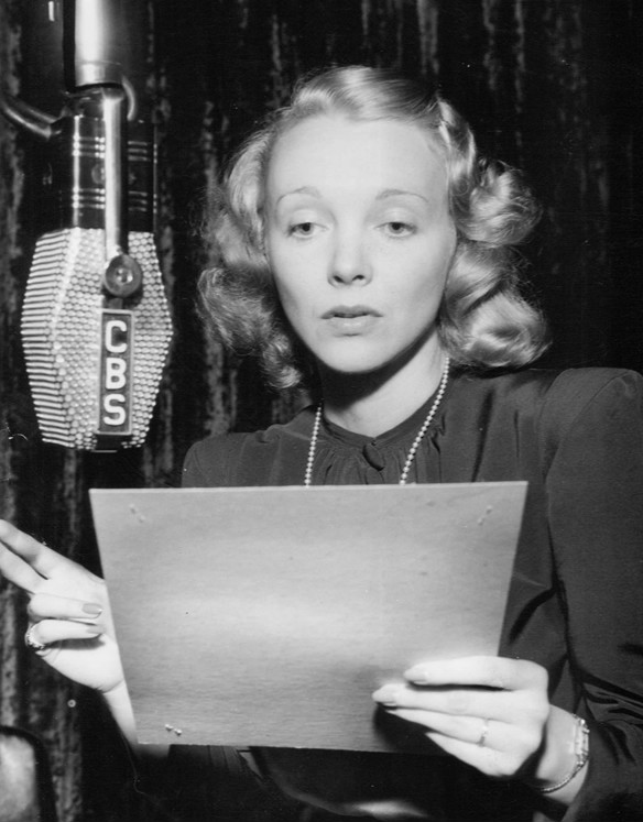 Photo of actress Virginia Bruce from the radio program Suspense.